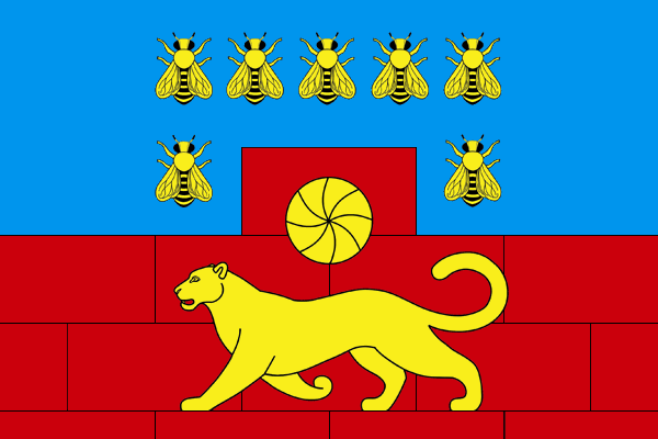 Flag of Myasnikovsky rayon, Rostov Oblast, Russia